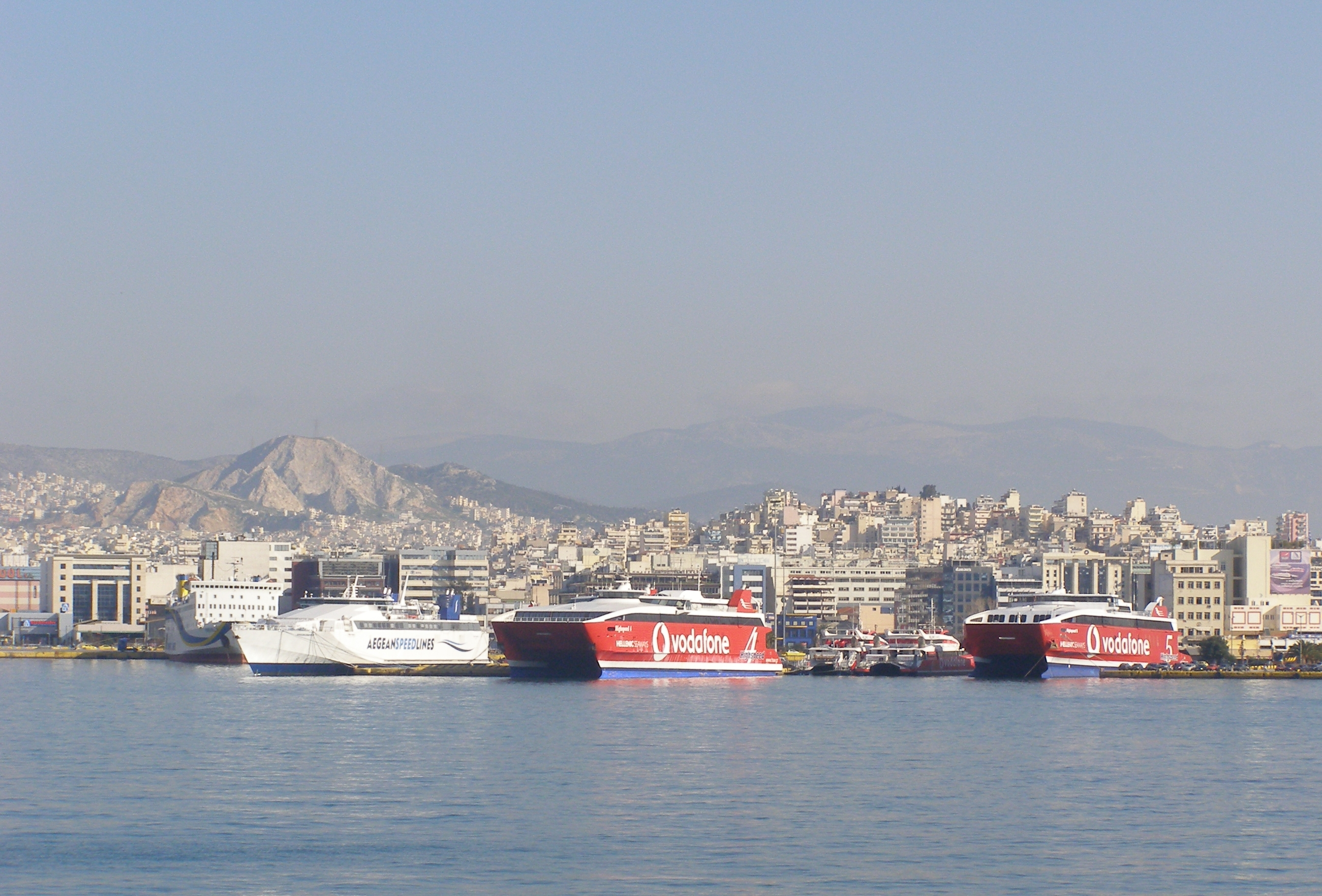 Piraeus - harbour